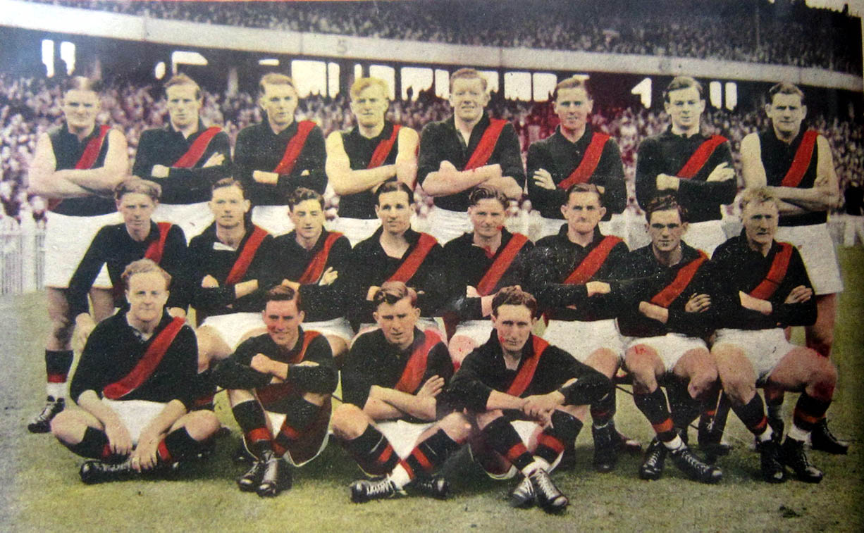 Essendon FC team, VFL premiers